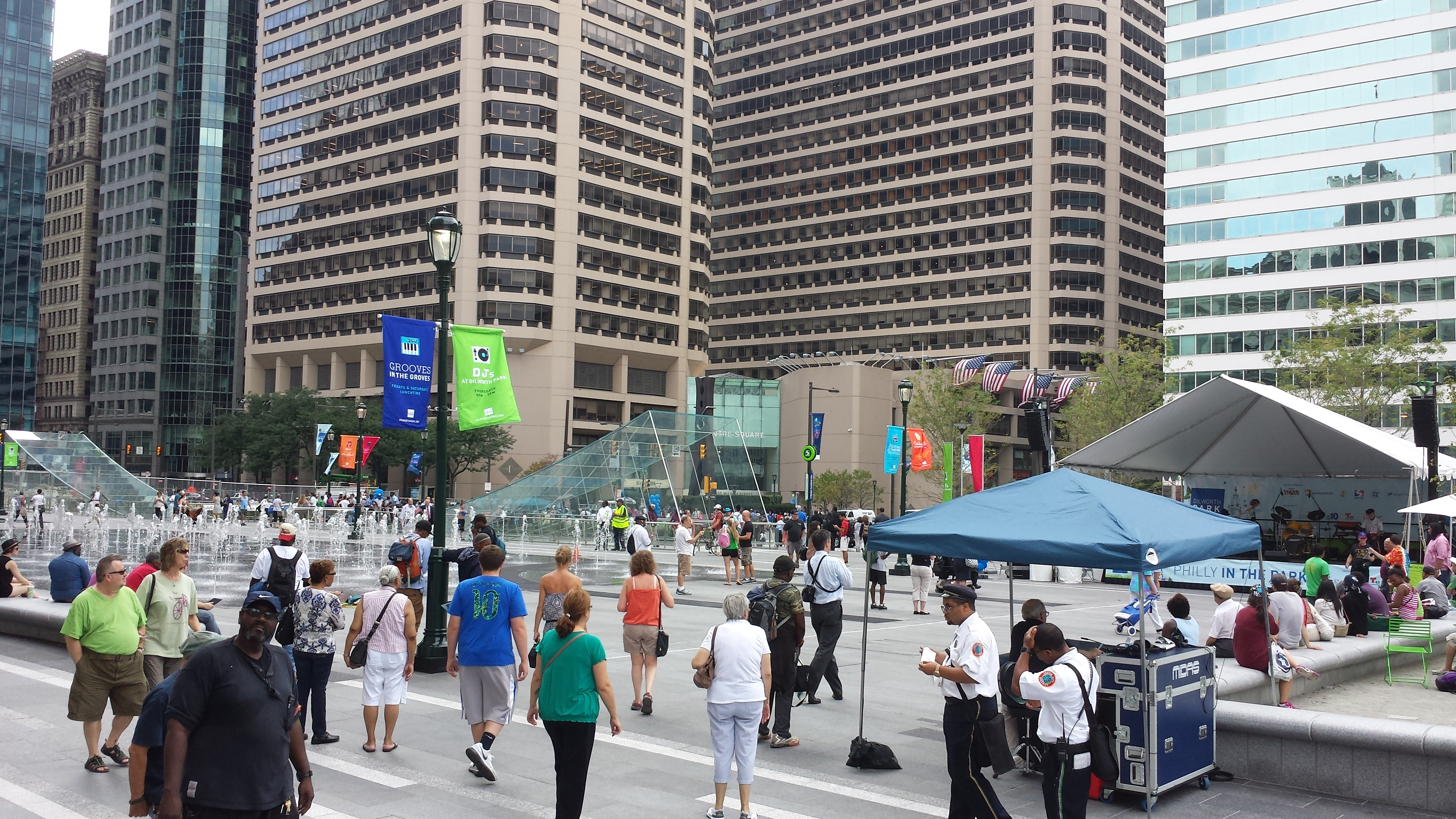 Dilworth Park at its opening on Septermber 4 2014